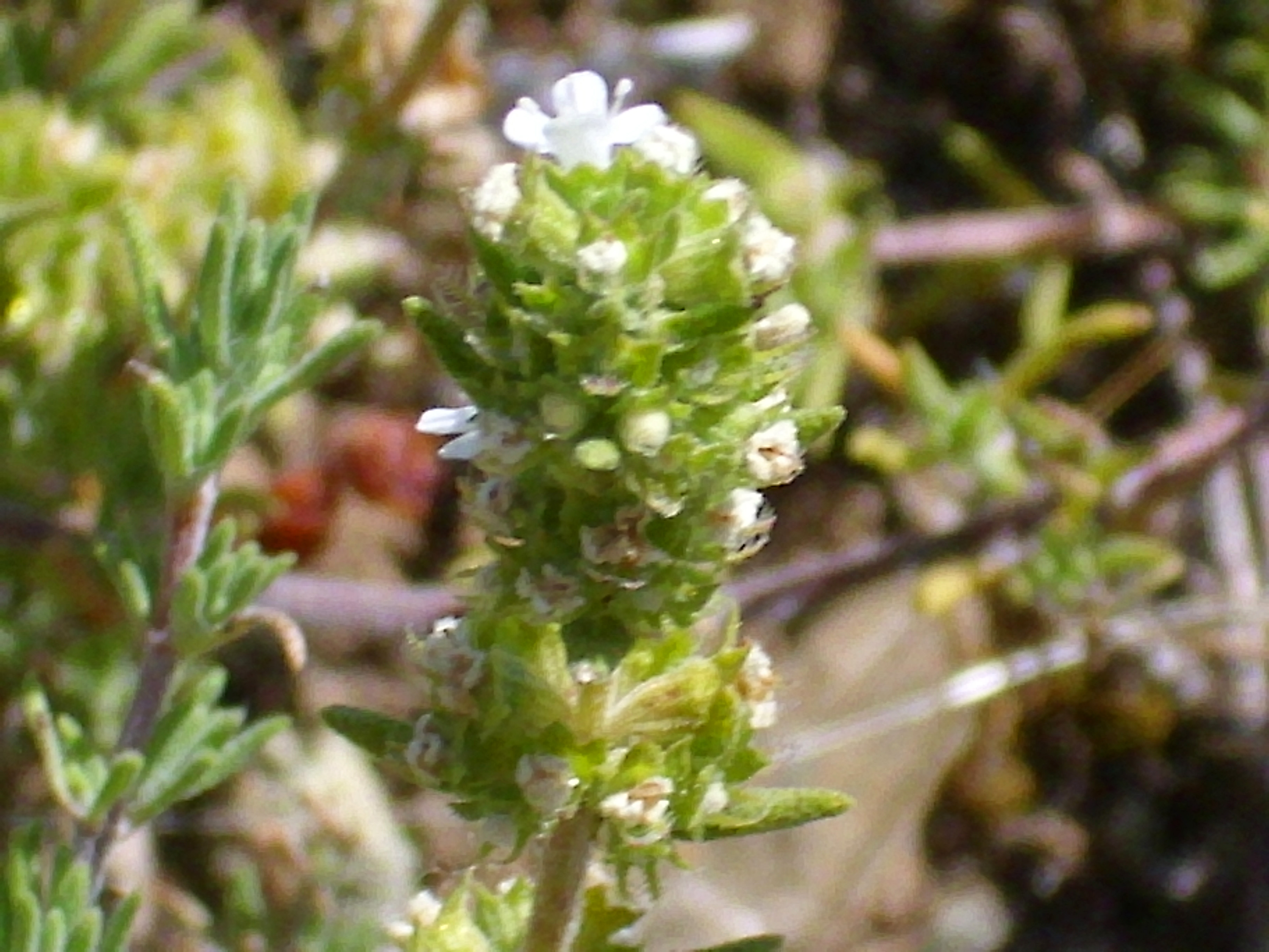 Thymus zygis subsp. sylvestris semi mature inflorescence, Valle de Alcudia, Spain